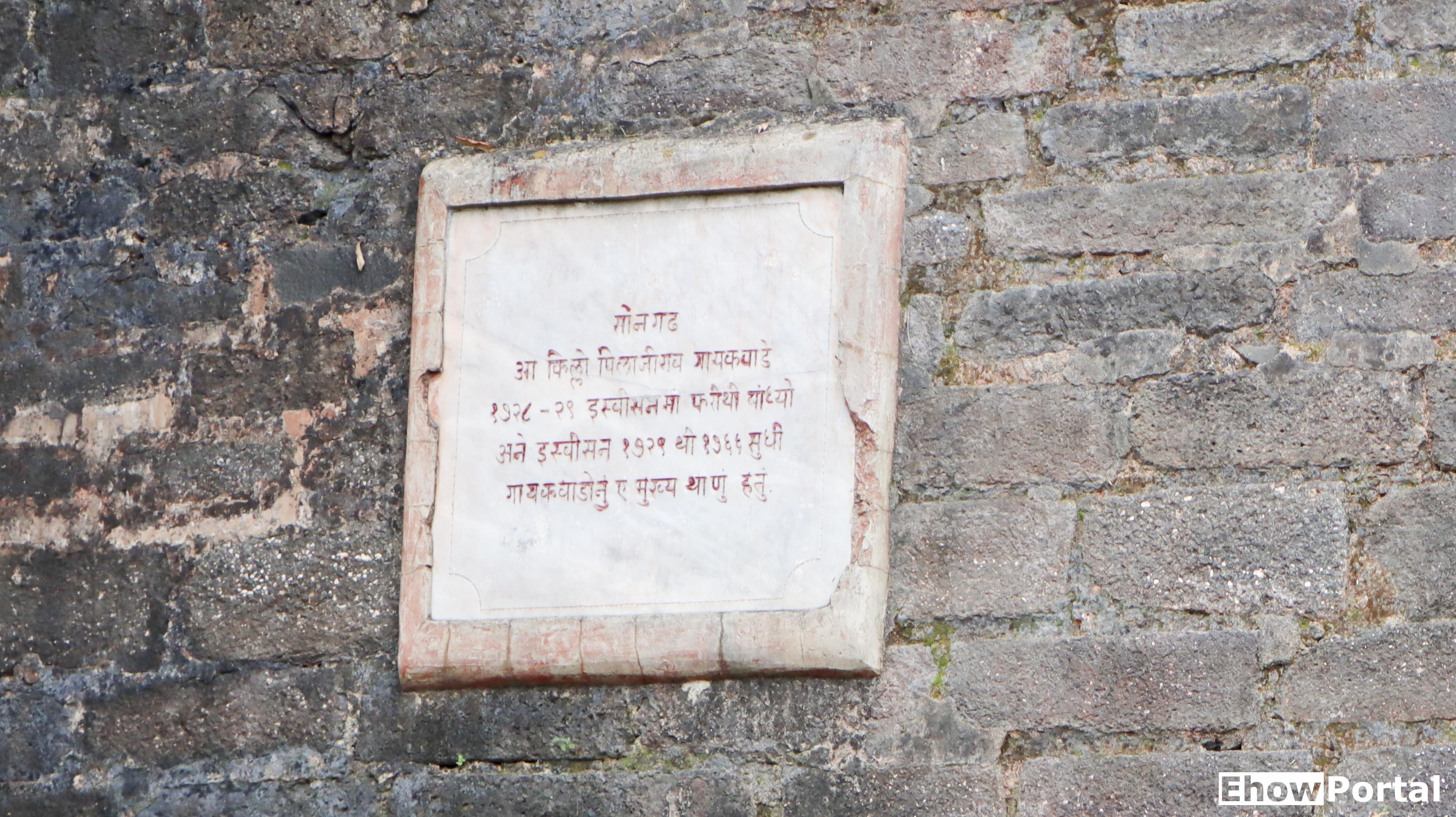 This is the signboard on Songadh fort entrance showing the history of this fort.